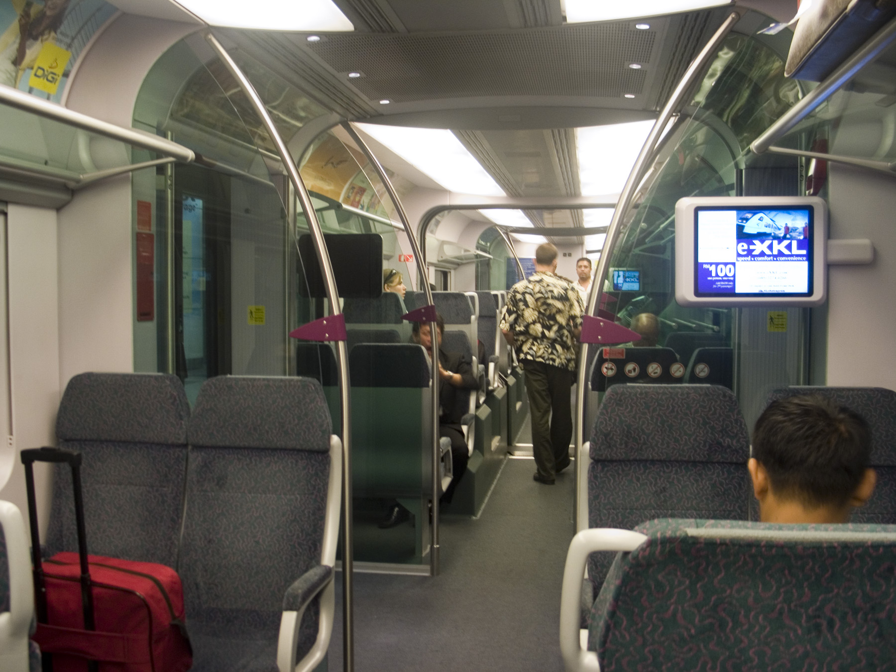 Interior of KLIA Ekspres carriage